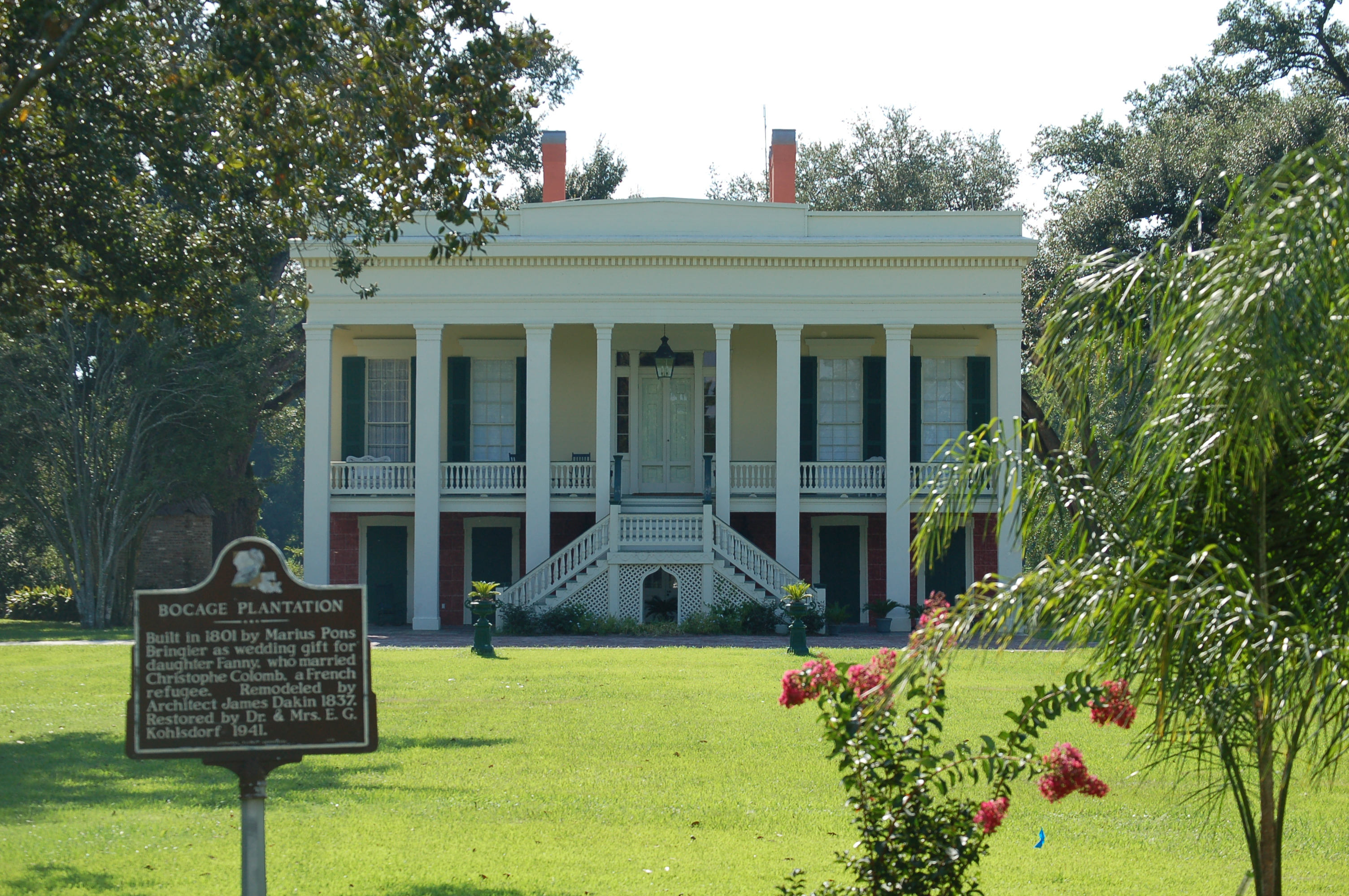 Bocage